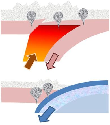 Geological processes of subduction and delamination lead to different locations of granite inclusions. For discussion see N. H. Woodcock, Robin A. Strachan (2000) "Chapter 12: The Caledonian Orogeny: a multiple plate collision" in Geological history of Britain and Ireland, Wiley-Blackwell, p. 202, Figure 12.11 ISBN: 0632036567.